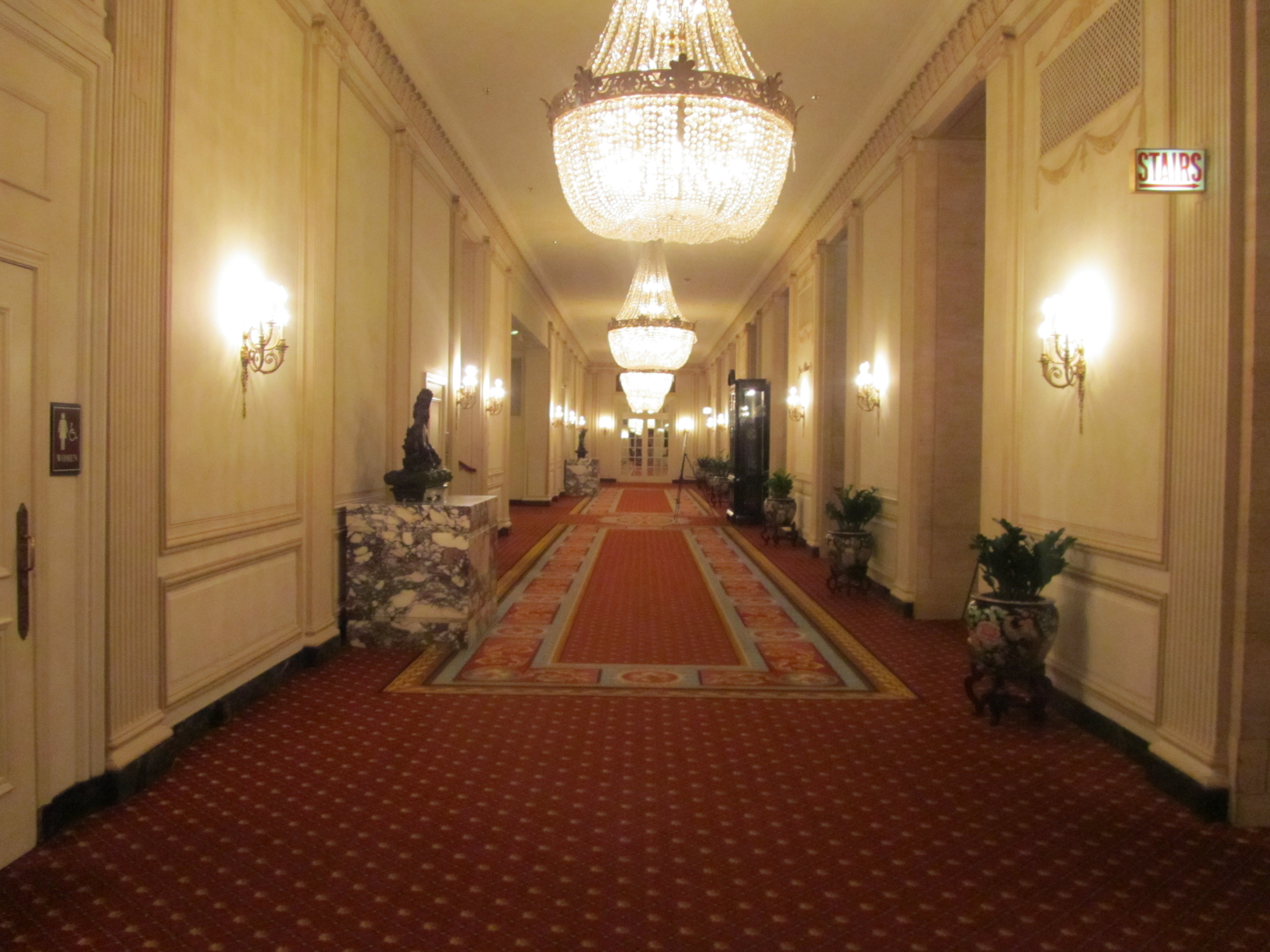 Hilton Chicago - corridor